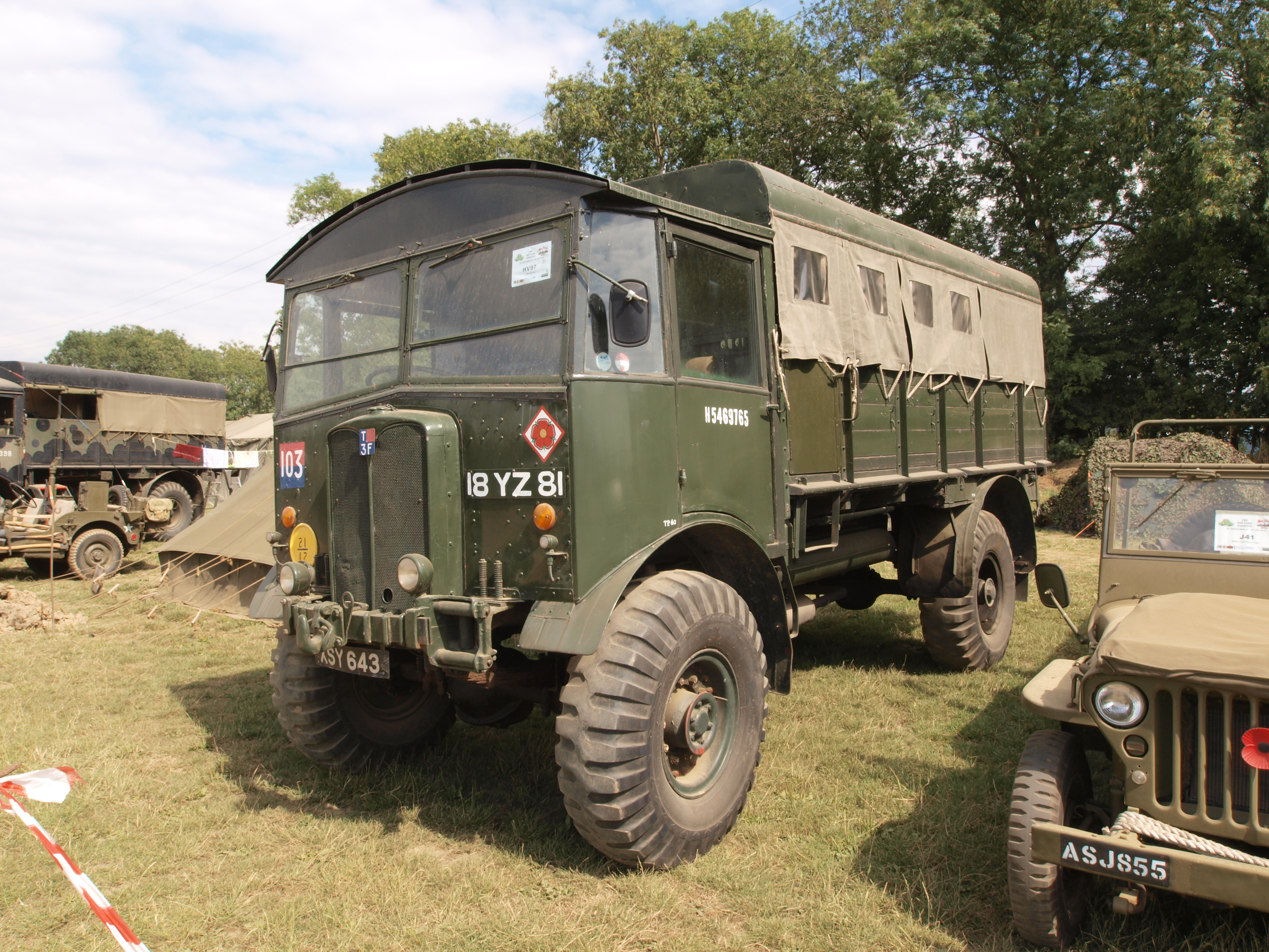 AEC Matador at the War & Peace show, Kent, England.